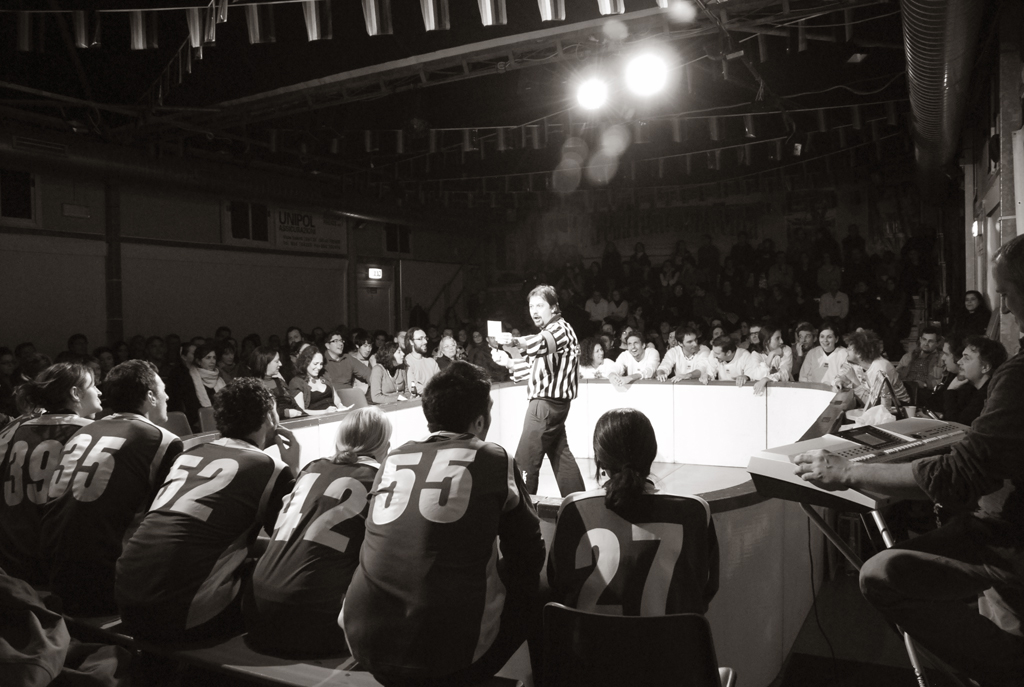 Theatresports, Florence, Italy.